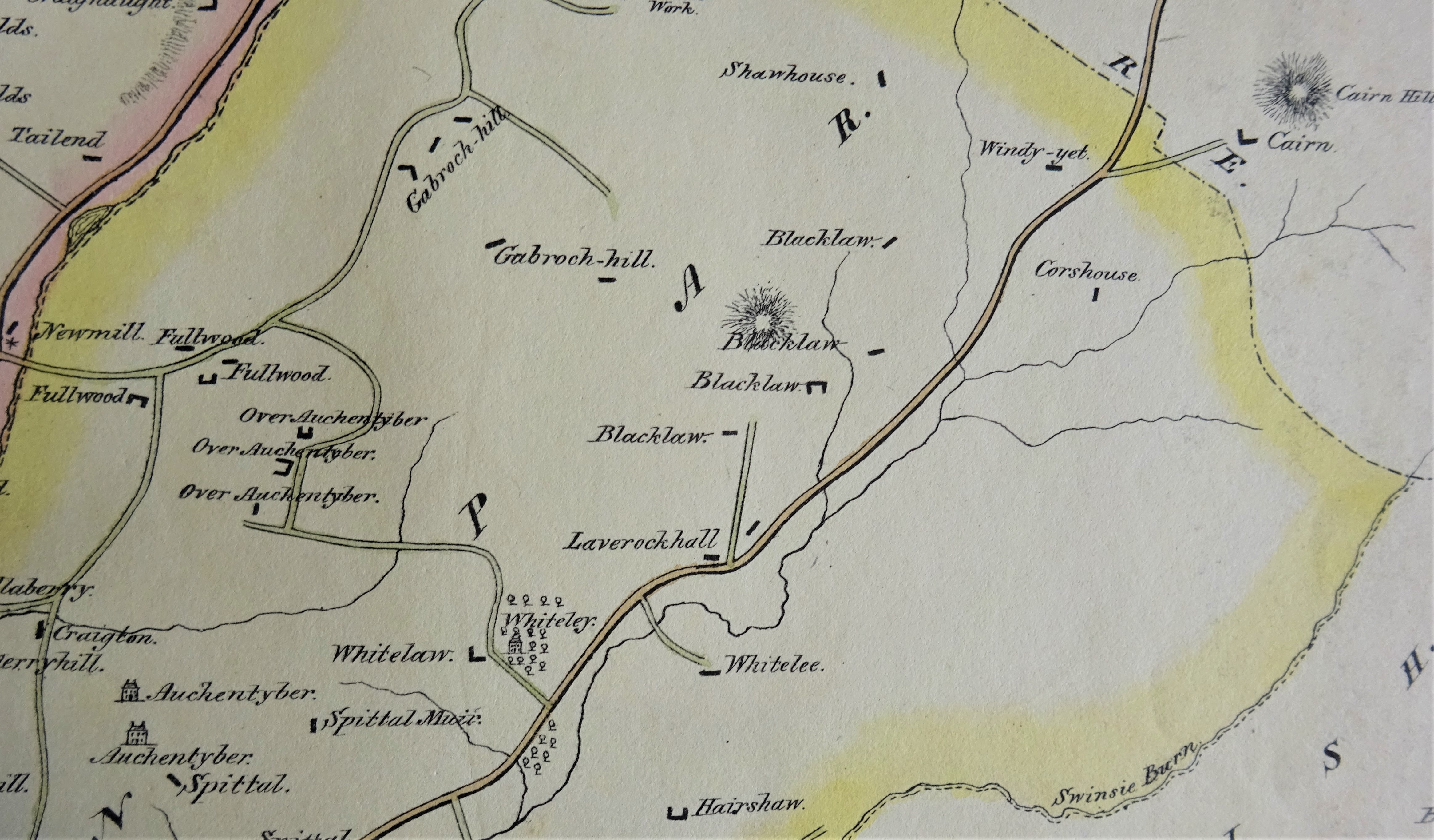 Upper Strathannick with the lands of Blacklaw, Stewarton. Robert Aitken 1829.